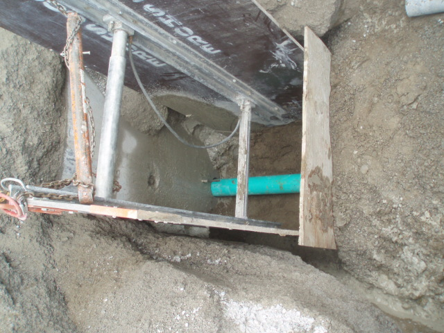 Connection of a Sewer Lateral Service to MH